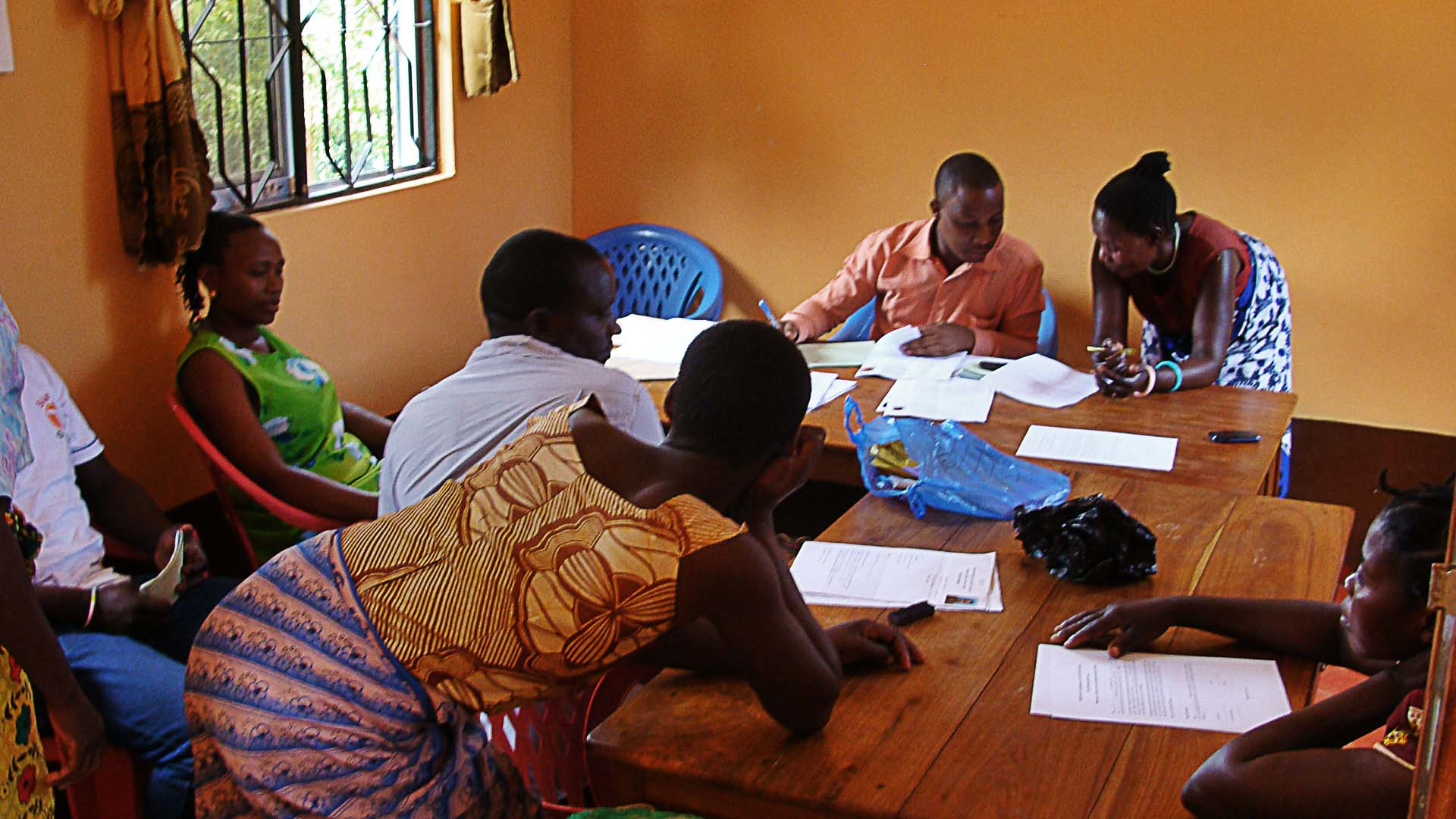 Evaluation and discussing of a community participating in the Microfinance Project